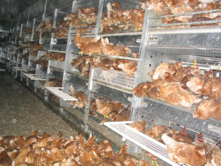 chickens in aviary system